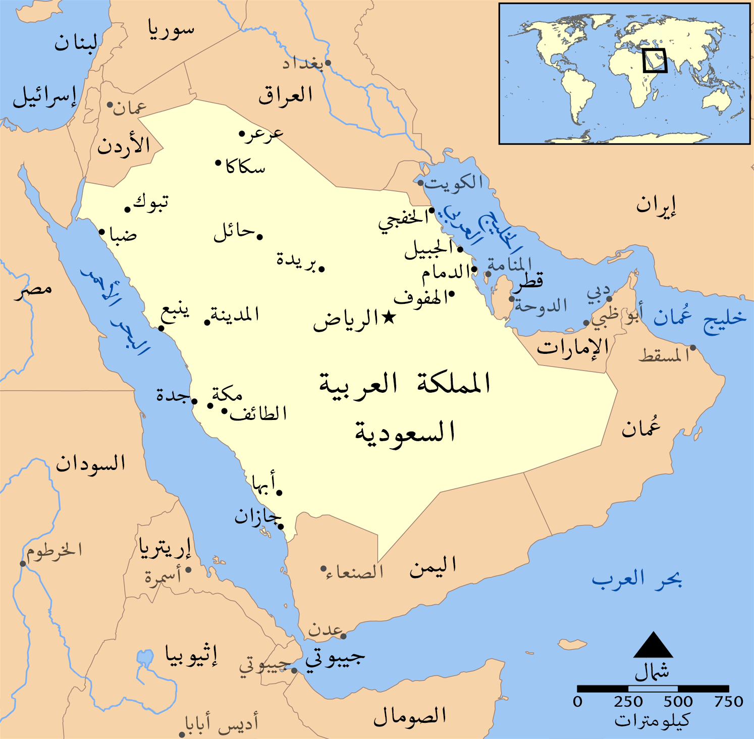 A simple map showing the major cities in Saudi Arabia. Note that the border is pre-2000 Treaty of Jeddah. Created by NormanEinstein, February 10, 2006.